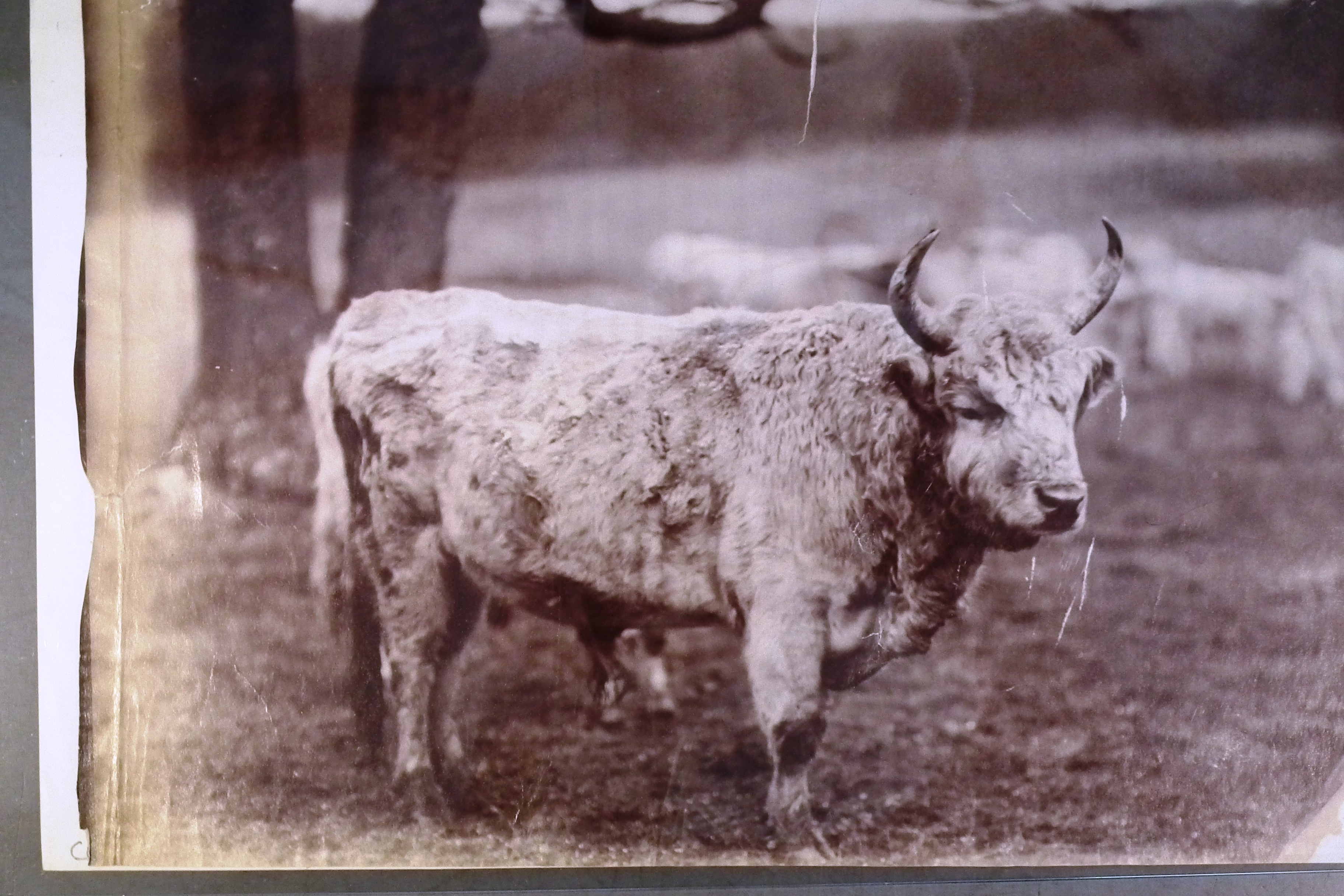 1890 photo of wild cattle of Chilligham